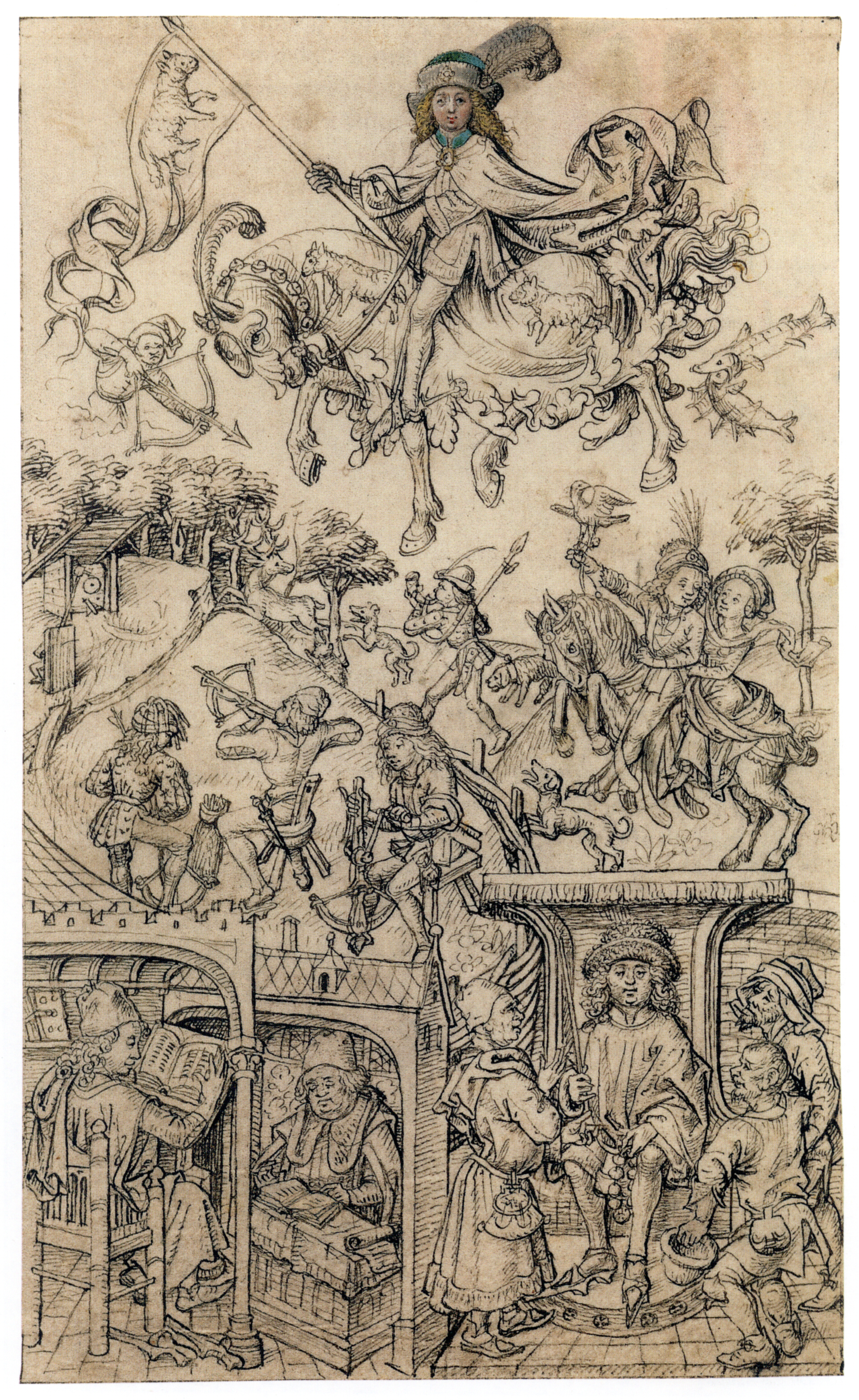 Mittelalterliches Hausbuch von Schloss Wolfegg Fol. 12r: Jupiter und seine Kinder Master of the Housebook (fl. between 1475 and 1500 date QS:P,+1500–00–00T00:00:00Z/6,P1319,+1475–00–00T00:00:00Z/9,P1326,+1500–00–00T00:00:00Z/9) Alternative names Master of the House-Book, Master of the Amsterdam Cabinet, Master of 1480DescriptionGerman painter, draughtsman and engraverDate of birth/death 1450 1500Work periodbetween 1475 and 1500 date QS:P,+1500-00-00T00:00:00Z/6,P1319,+1475-00-00T00:00:00Z/9,P1326,+1500-00-00T00:00:00Z/9Work location Middle Rhine, Heidelberg (?), Mainz (?)Authority control : Q460300 VIAF: 79397502 ULAN: 500002780 WGA: MASTER of the Housebook GND: 118546961 RKD: 115714 creator QS:P170,Q460300